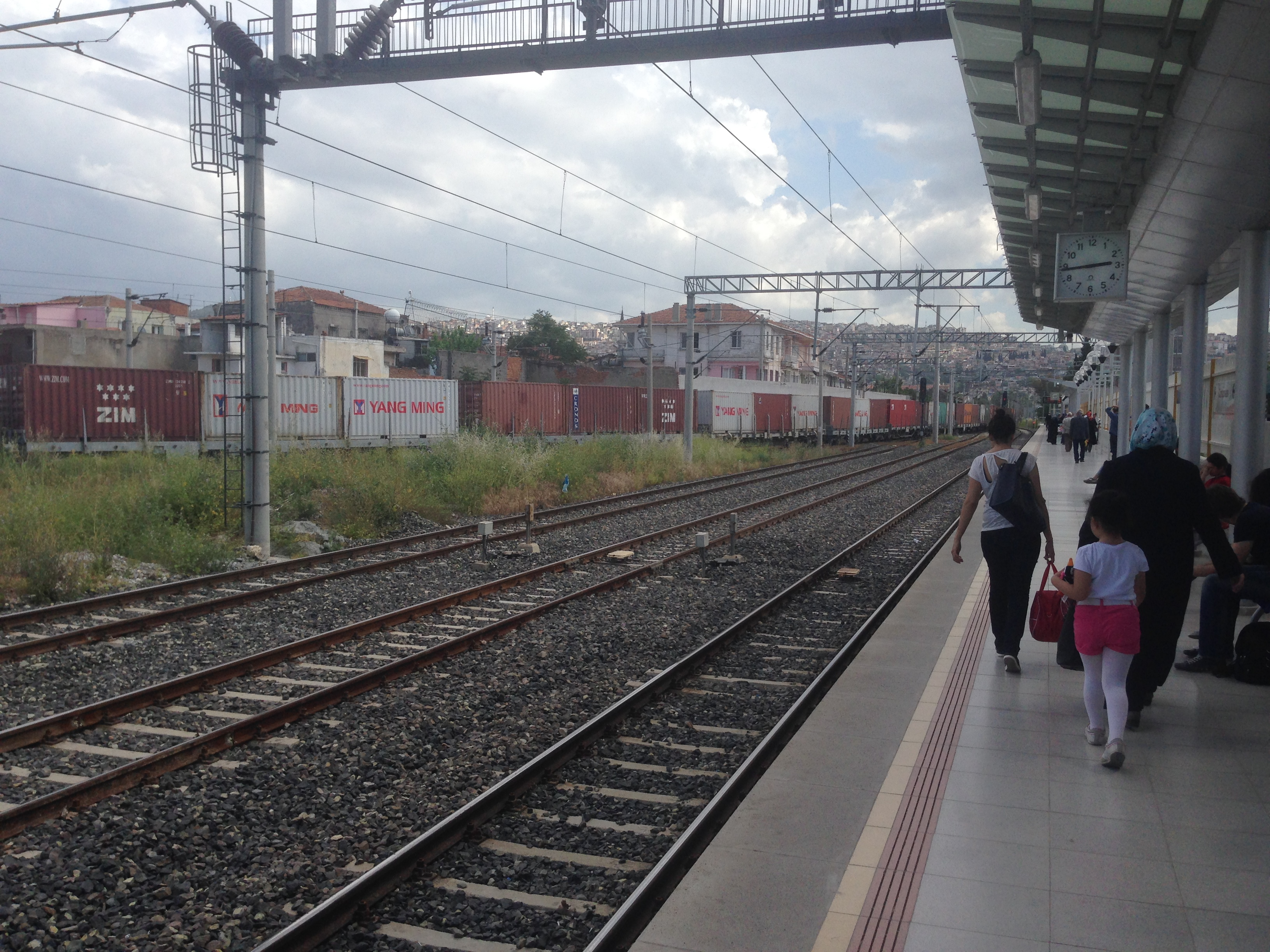 Looking south from the southbound platform at Hilal.